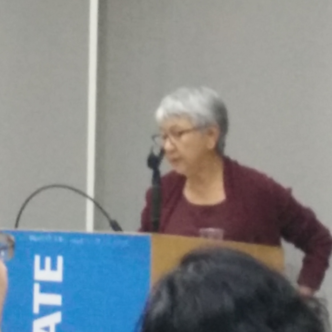 Aihwa Ong at the Graduate Center of the City University of New York, giving at talk entitled 'Liberal Enclaves: de- and re-territorializing immigrants' alongside Charles Piot in October 2016.